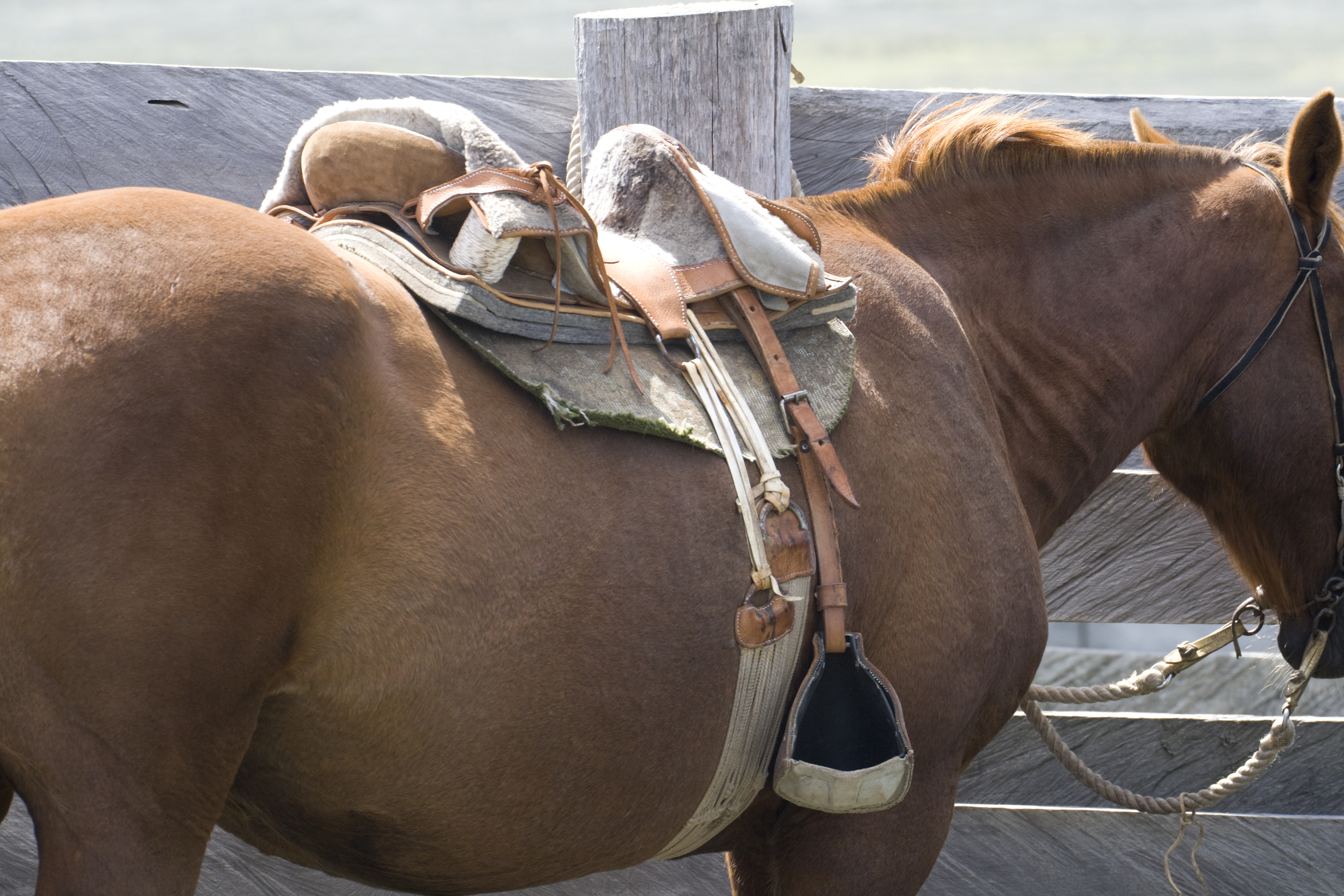 Chilean saddle